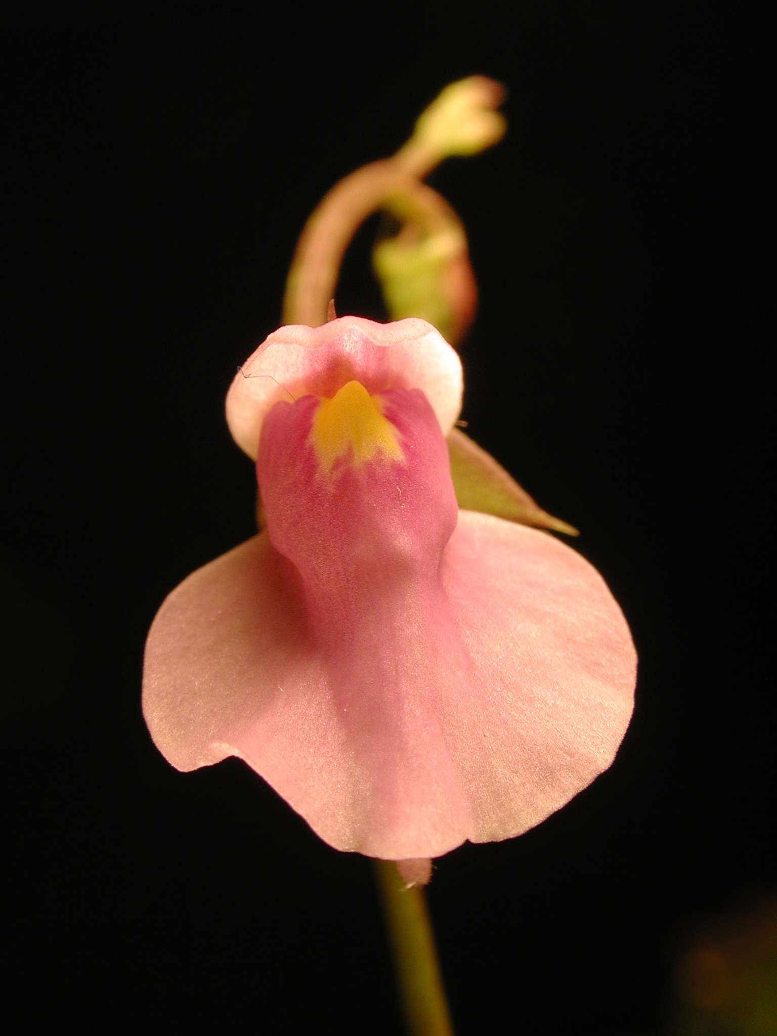 Flower of carnivorous Utricularia calycifida (en) from front. Size of the flower is about 0.5cm (macro)